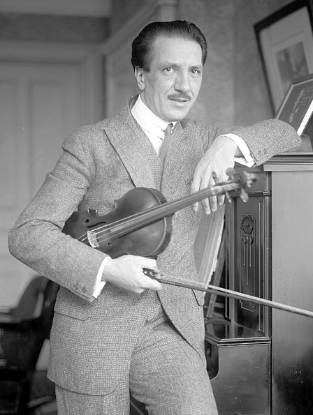 French violinist Jacques Thibaud (1880-1953), holding violin and bow, leaning against piano.